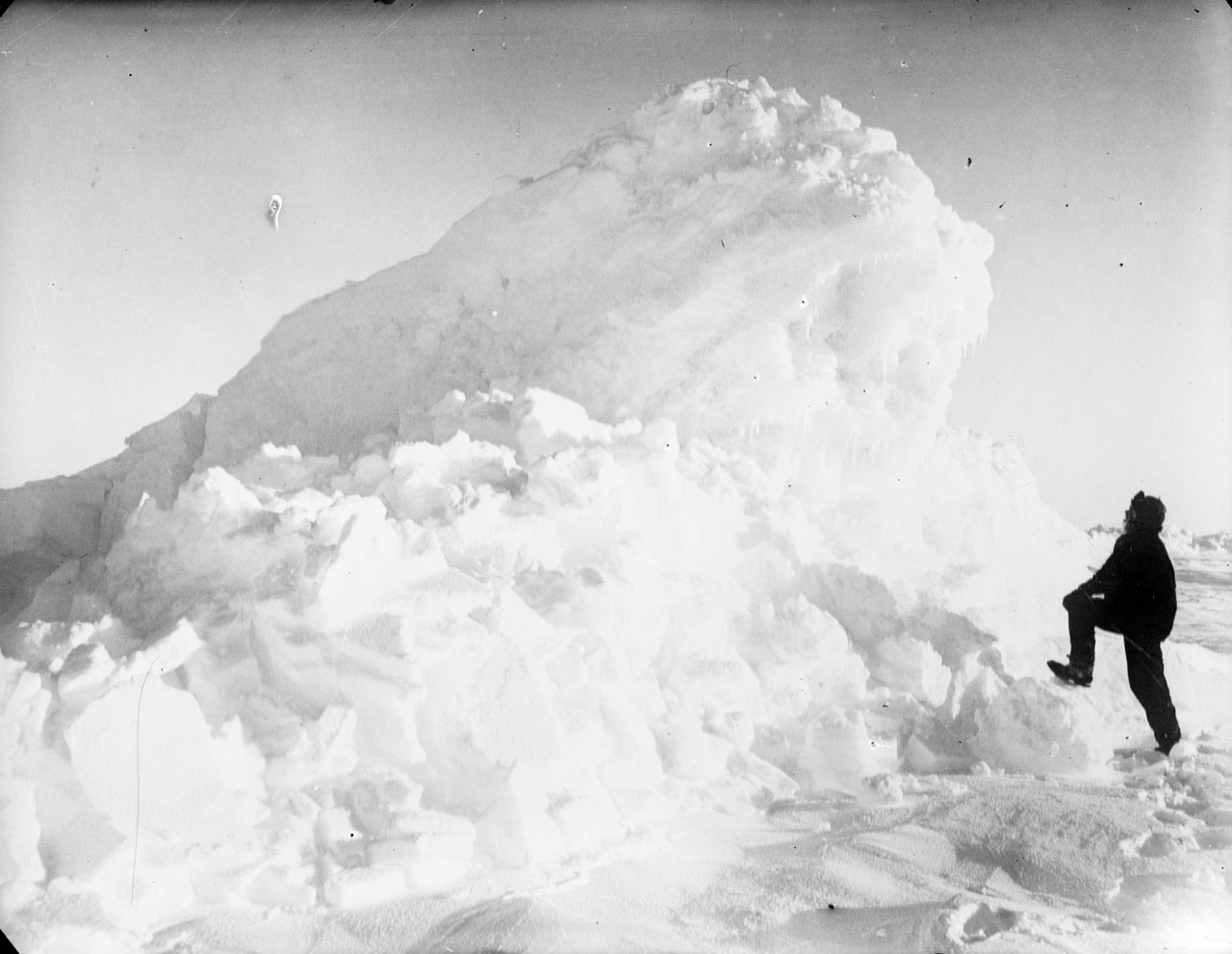 Reproduction ID: P00008 Maker: James Francis Hurley Date: circa August 1915 Materials: Gelatine dry plate Henley Collection